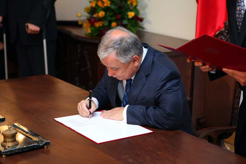 President of the Republic of Poland Lech Kaczyński signing ustawa z dnia 7 września 2007 r. o Karcie Polaka during III Zjazd Polonii i Polaków z Zagranicy.